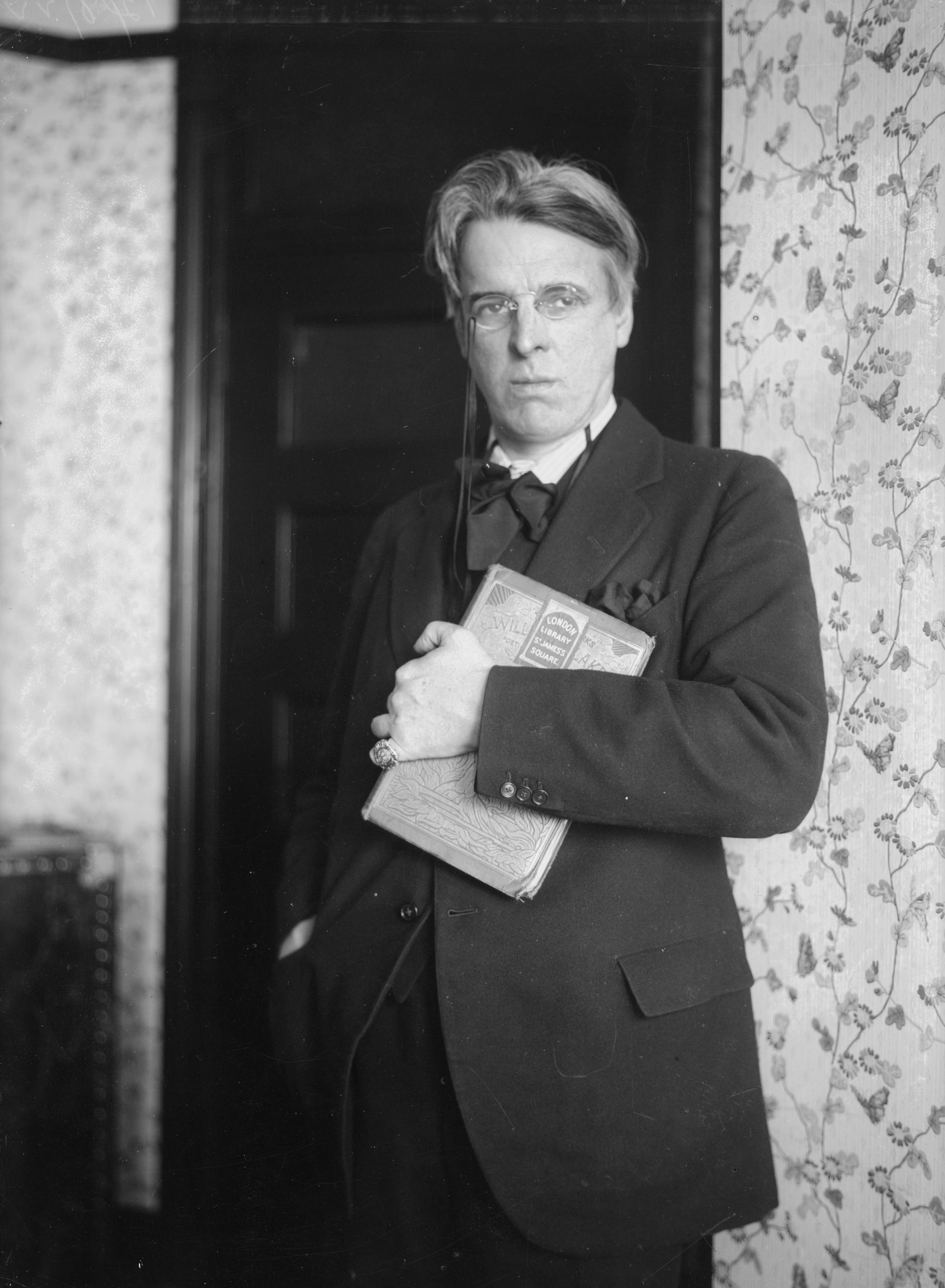 W. B. Yeats